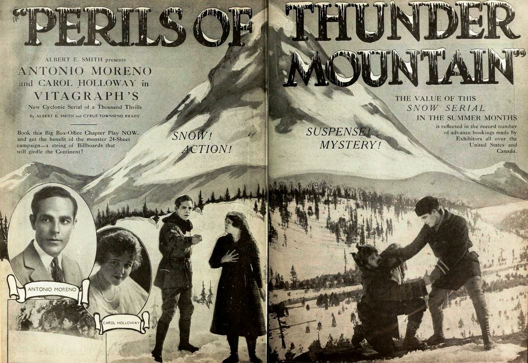 Ad for the American film serial Perils of Thunder Mountain (1919) with Antonio Moreno and Carol Holloway, on pages 598 and 599 of the May 3, 1919 Moving Picture World.